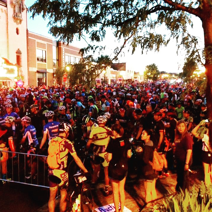 Riders line up at the DK starting line.